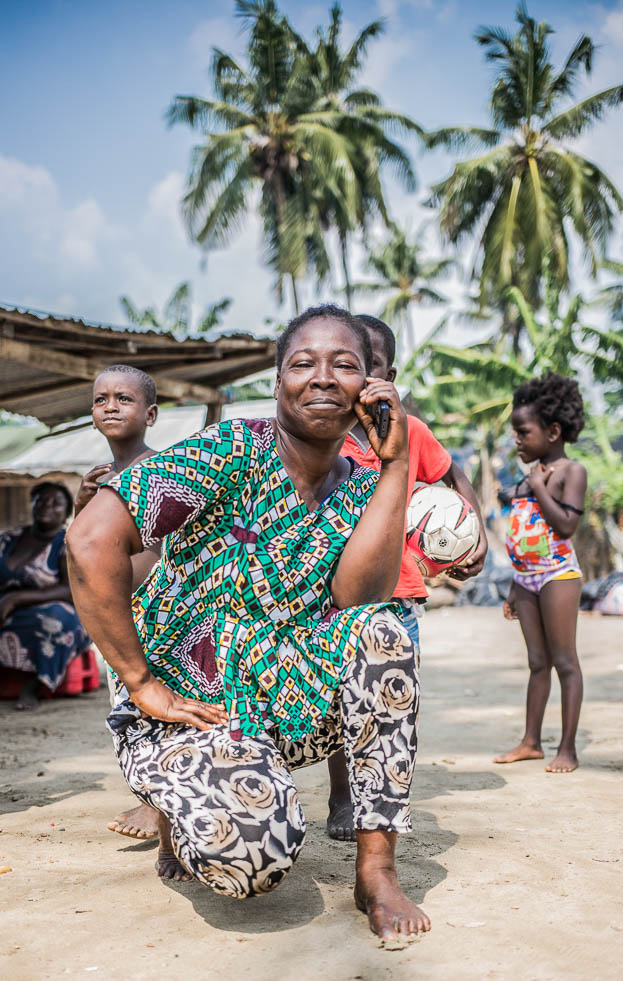 Joie de vivre et de prendre la pose, notre pétillant modèle du village des pêcheurs à l'île-bouley Abidjan (Côte d'Ivoire) This is an image with the theme "Africa on the Move or Transport" from: Ivory Coast